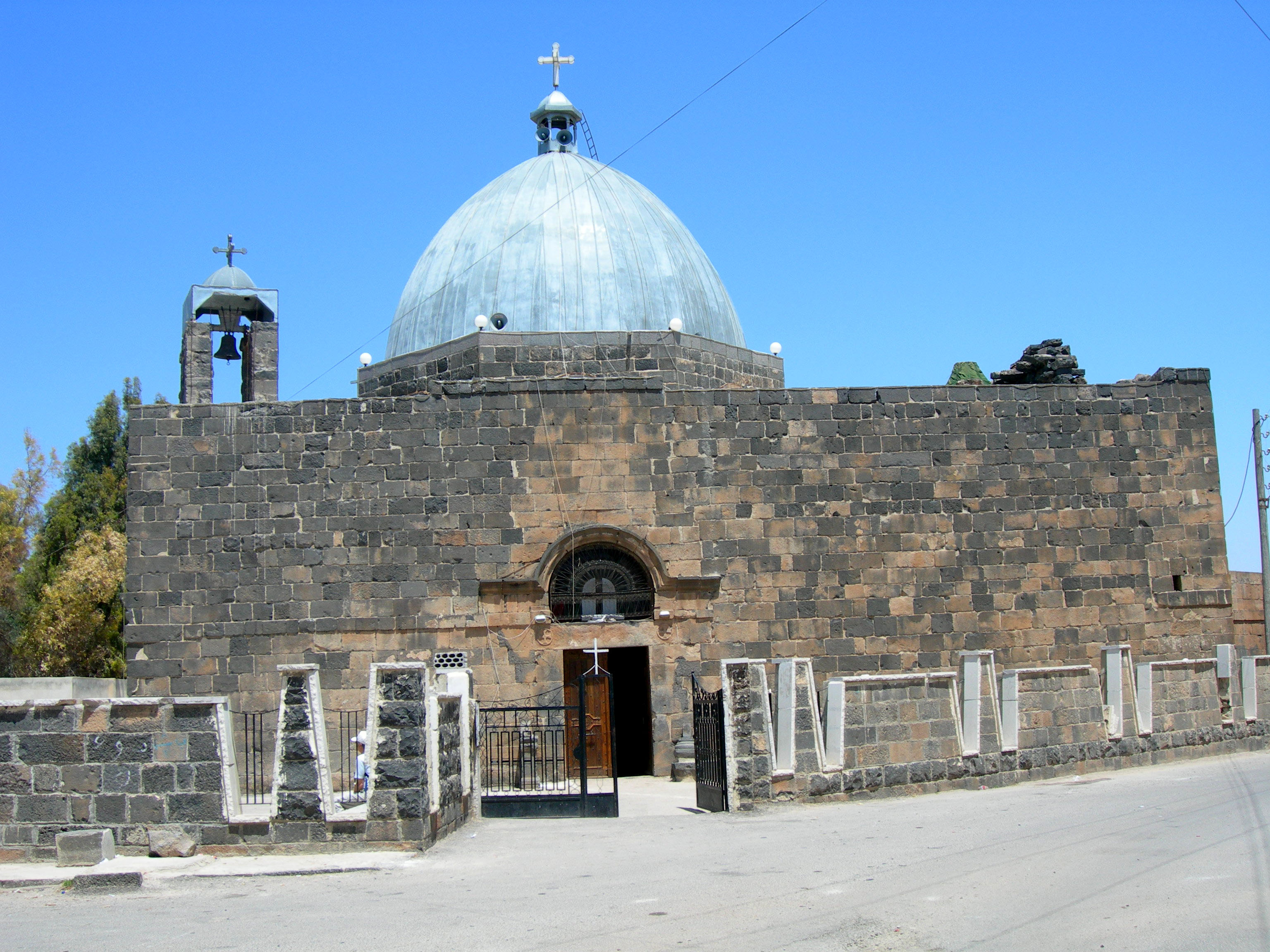 Church of Saint George, in Ezraa in 2008